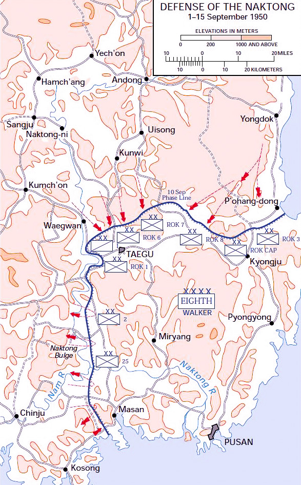 Map of the Naktong Defense lines, September 1950. This map was created by the United States Army Center of Military History (USACMH) and used in the brochure "The Korean War: The Outbreak" located at [1].